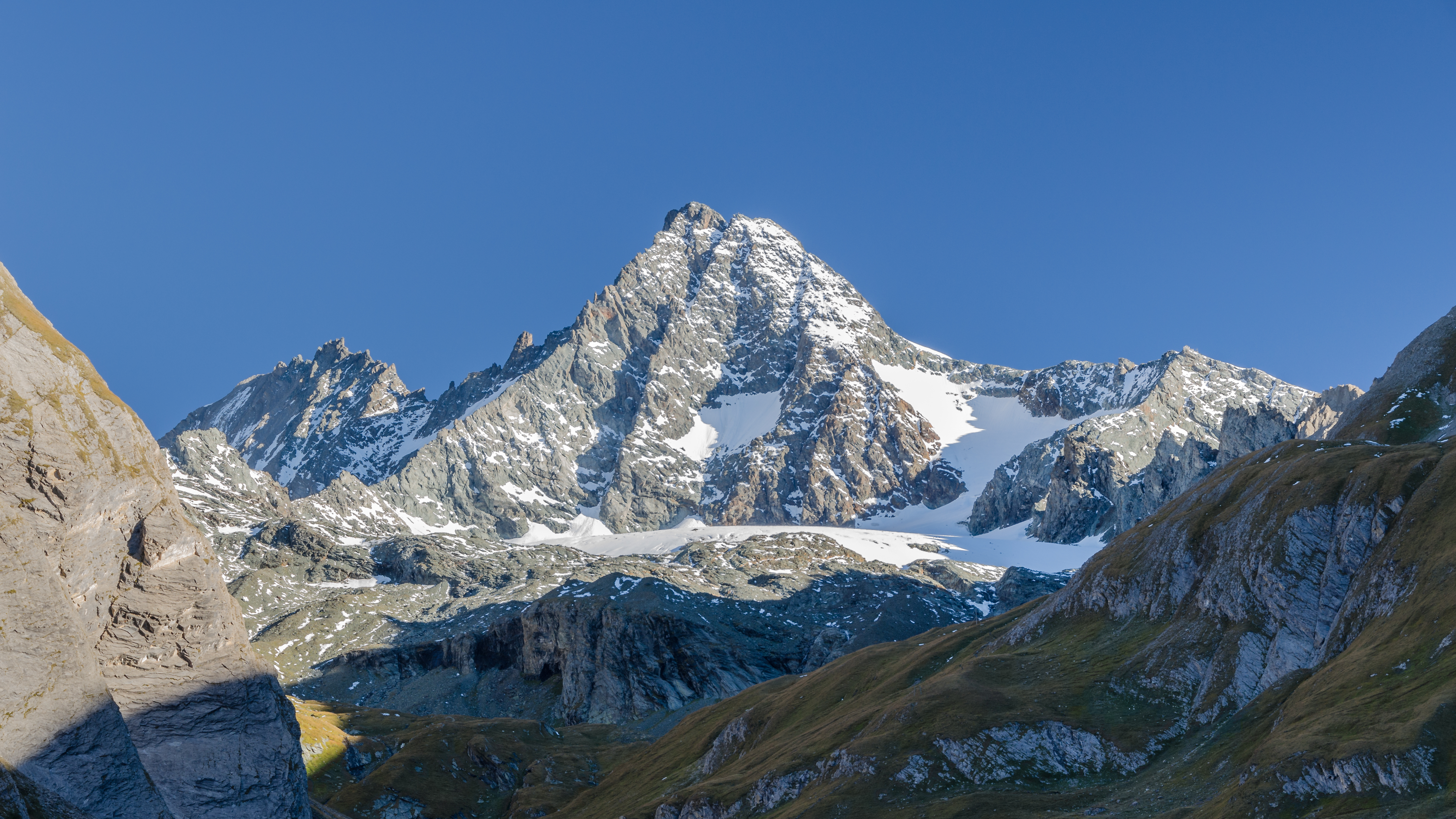 Grossglockner as seen from the parking lot at the Lucknerhaus